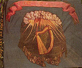 Regimental Color, 28th Massachusetts, presented by Brig. Gen. Thomas Francis Meagher of the Irish Brigade.